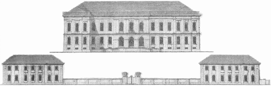 Catherine Palace, Novgorod (Facade, drawing 19th-century)